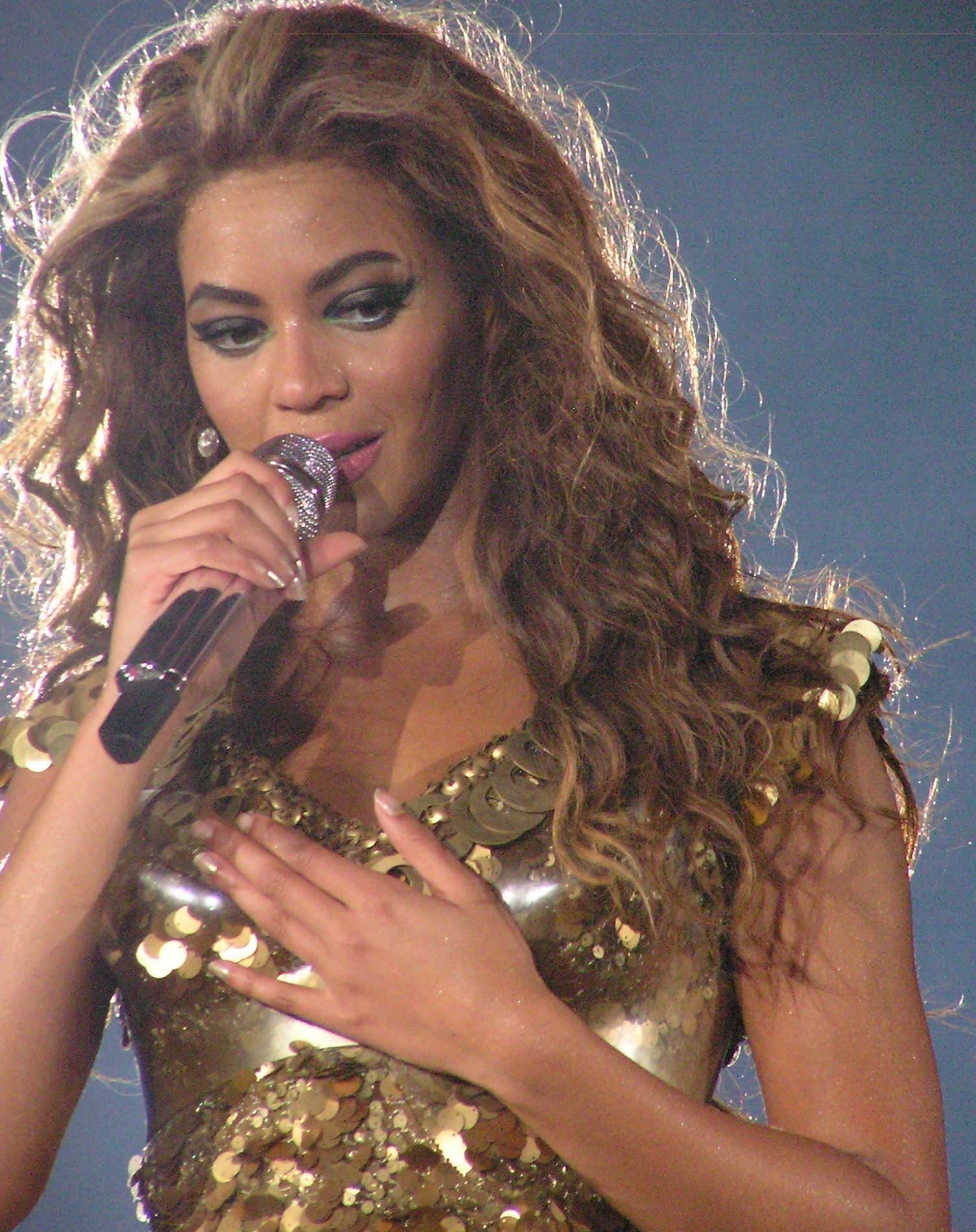 Beyoncé Newcastle 2009